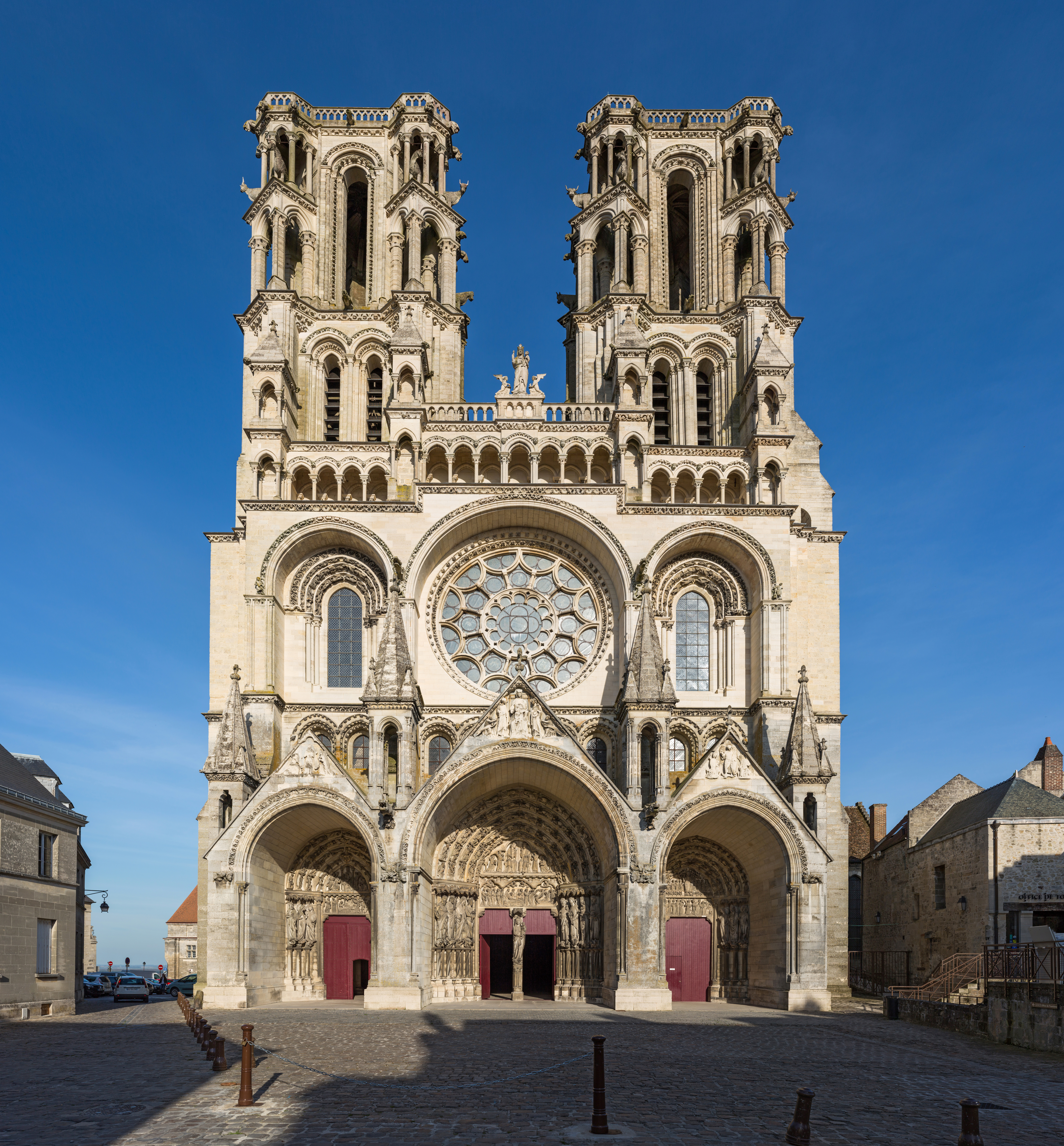 The exterior West front of Laon Cathedral in Picardy, France.